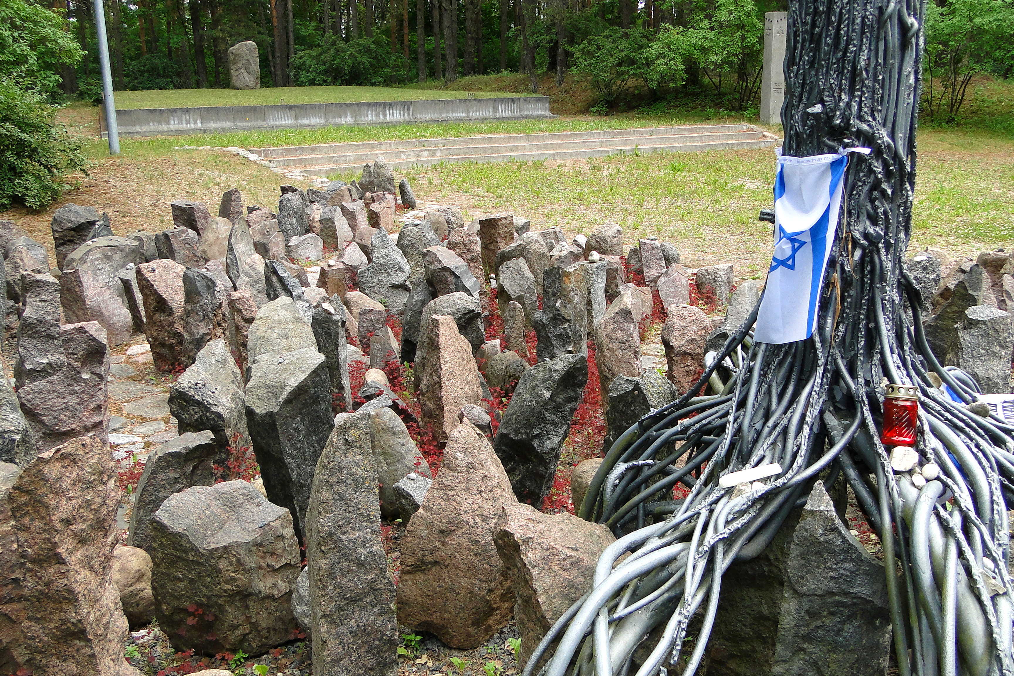 Detail of Monument with Israeli Flag - Rumbula Forest Holocaust Site - Riga - Latvia